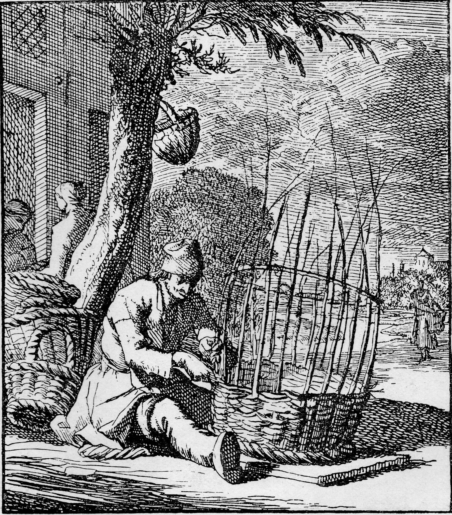 The basket maker